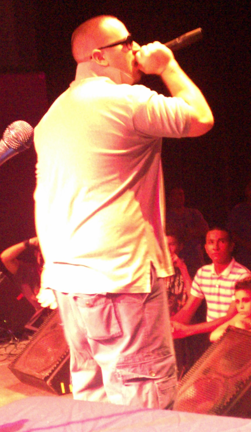 Bubba Sparxxx singing on-stage at the Knitting Factory in Reno on August 20, 2010